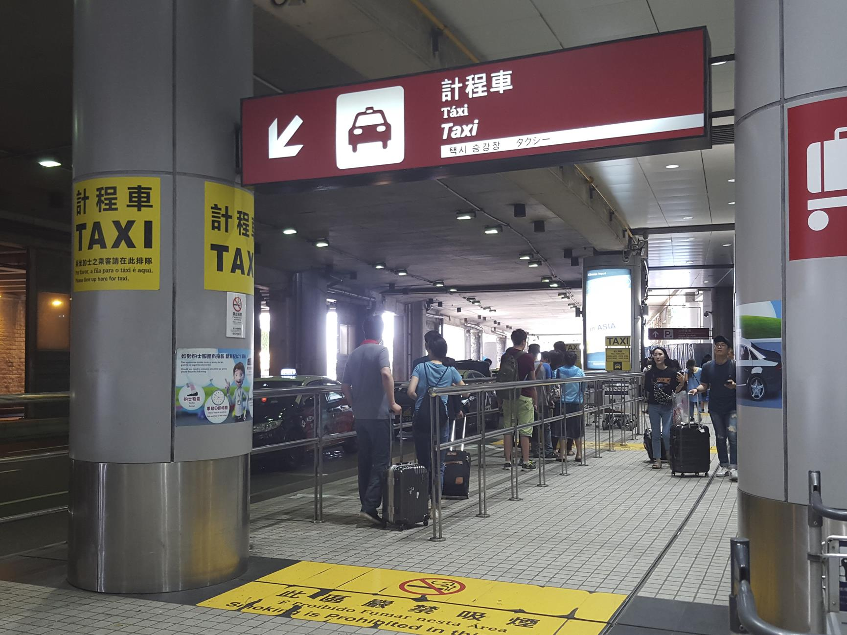 Taxi Stand at Macau International Airport